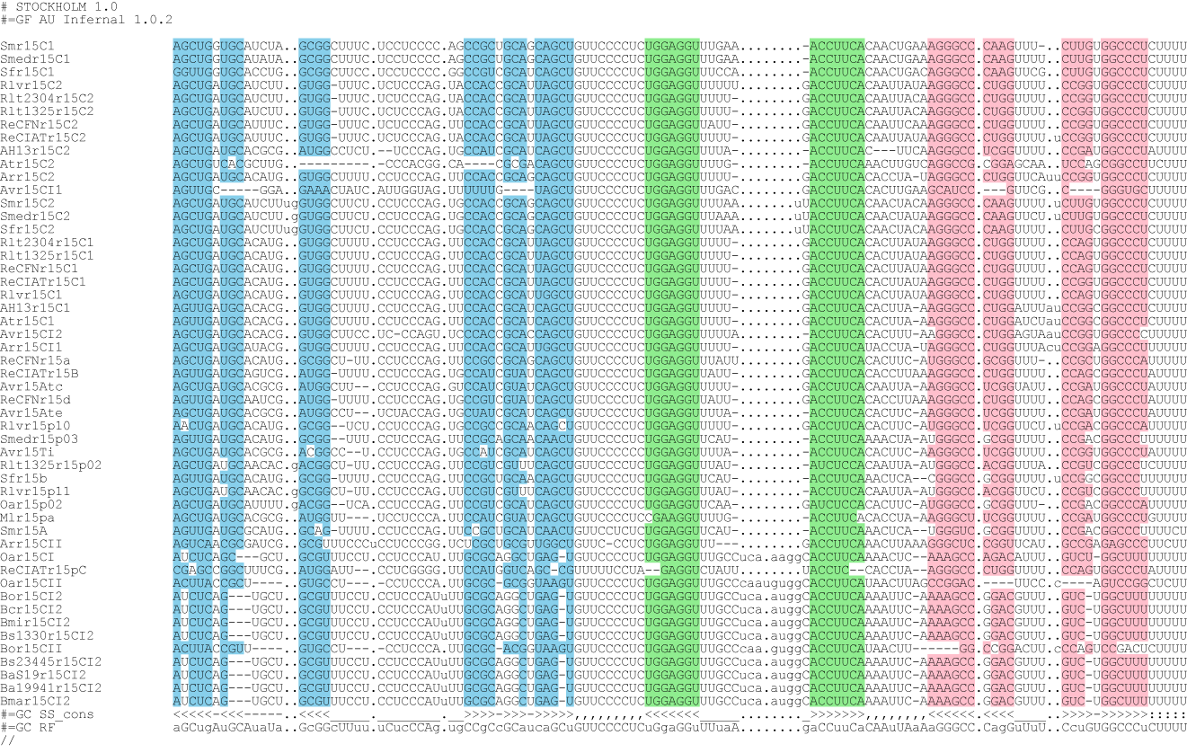 Sinorhizobium meliloti B15 family